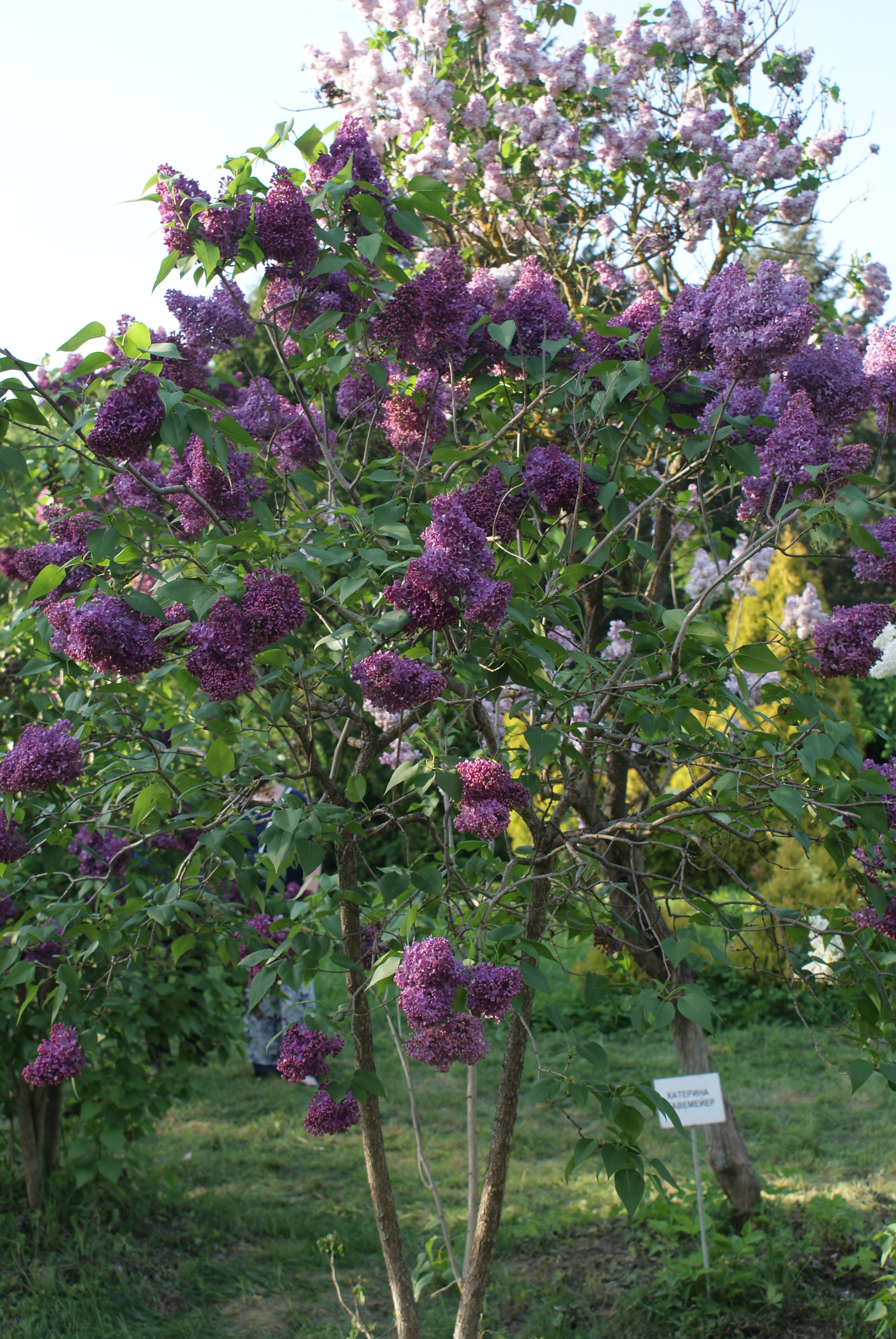 Syringa 'Radzh Kapur' in Botanical garden, Minsk